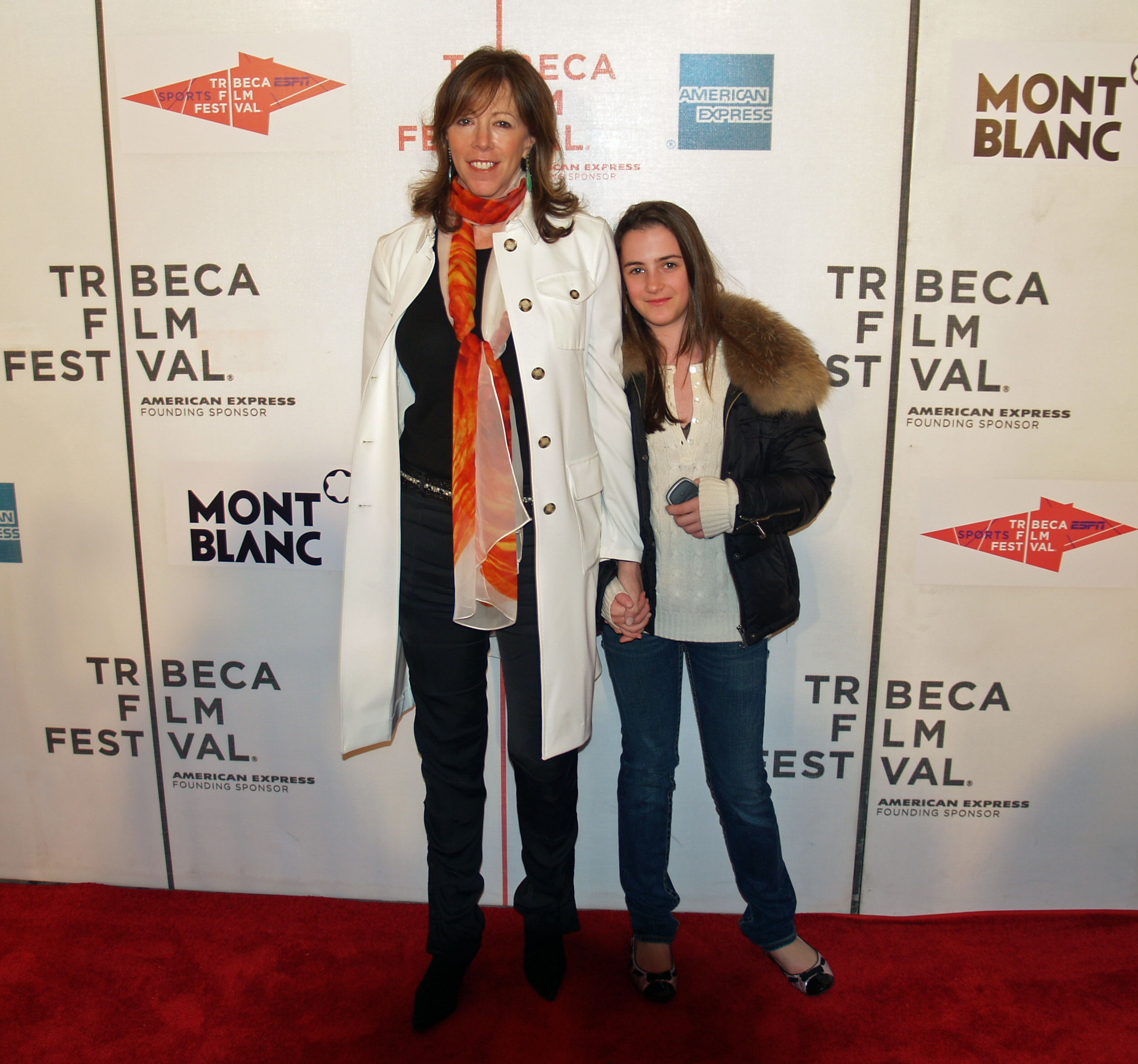 Jane Rosenthal and daughter